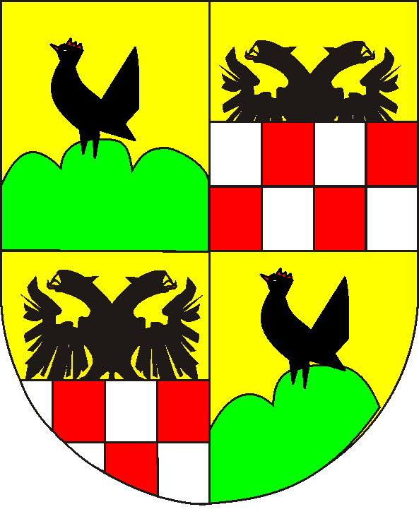 coat of arms